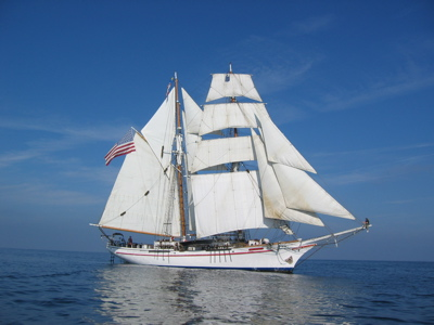 The Exy Johnson off Catalina, California.